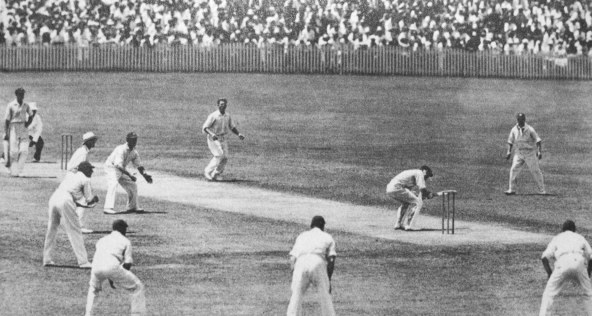 Australian cricket batsman Bill Woodfull faces a Bodyline field in the 4th Test match in Brisbane, 1933. Harold Larwood is bowling. Note the mass of fielders on the leg side, designed to catch the ball if the batsman defends his body with his bat, and deflects the ball in the air.